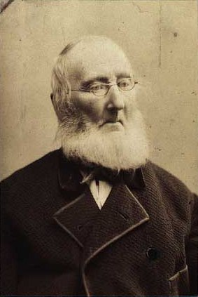 Jørgen Balthasar Dalhoff (1800-1890), Danish goldsmith, purveyor to the Royal Danish Court